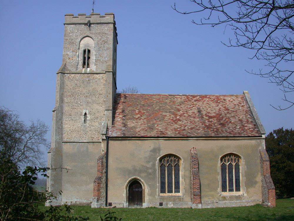 Church of St George, Hatley St George, Cambridgeshire, England